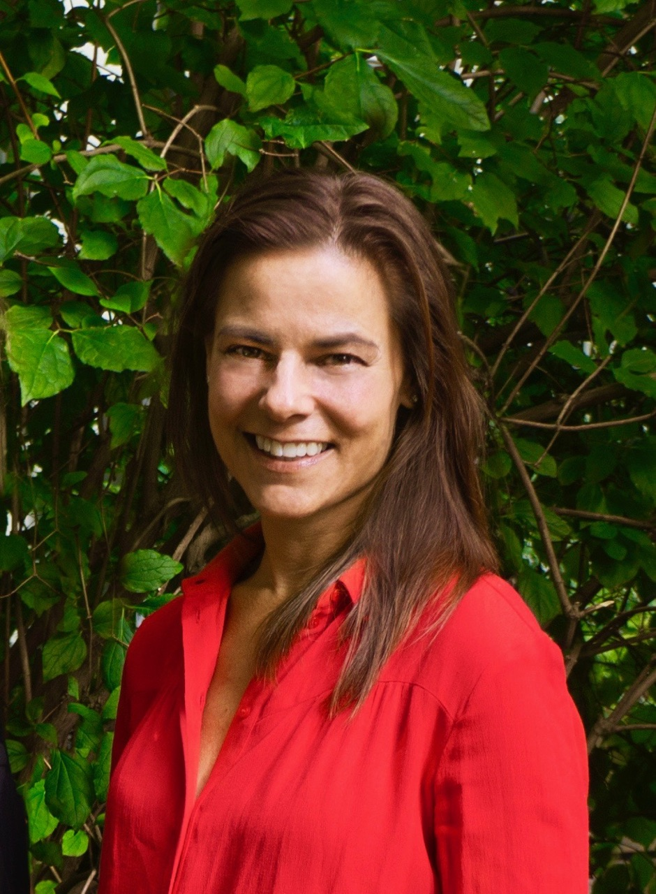 Professor Sanna Wolk